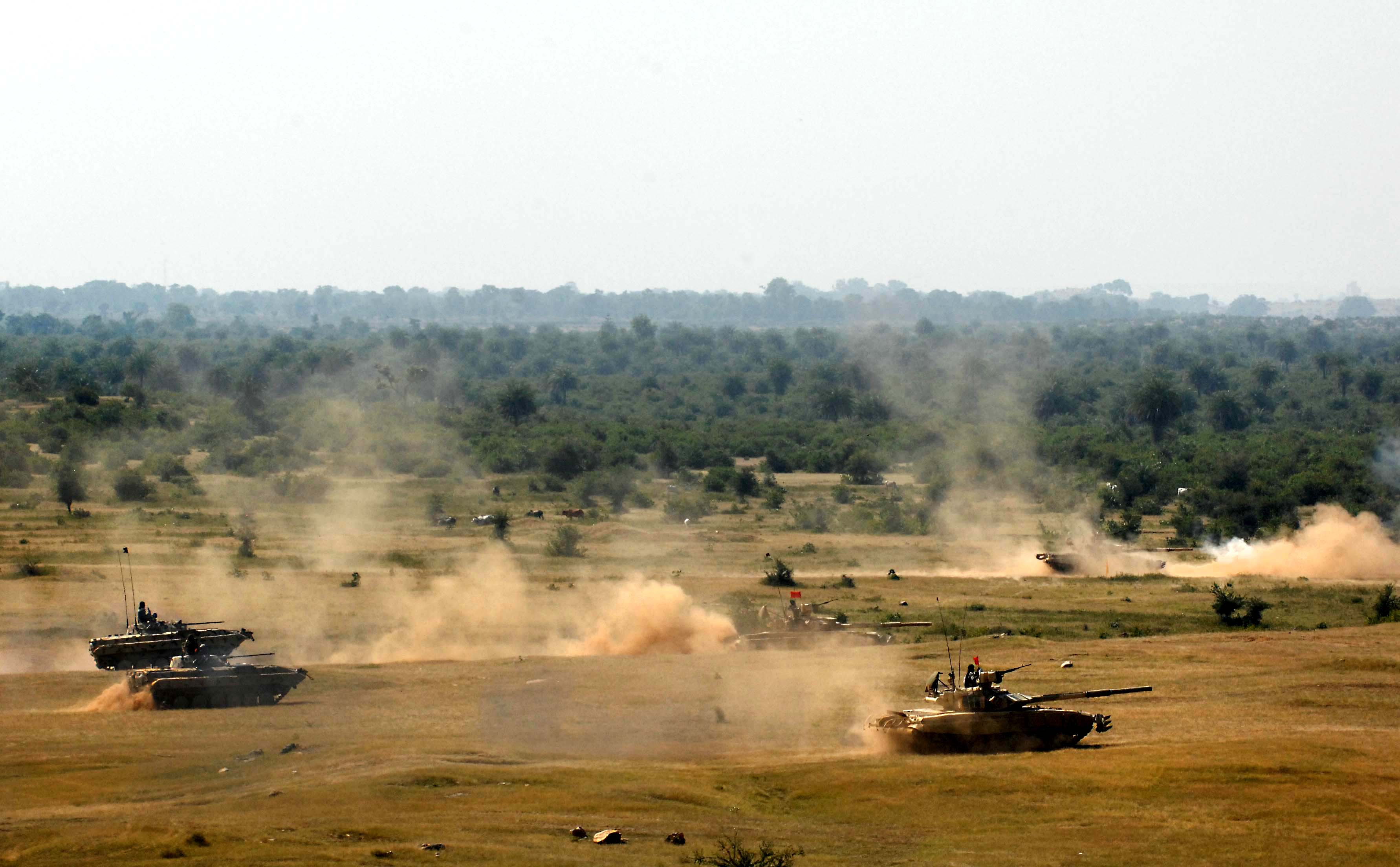 A mix of Indian army tanks and infantry vehicles onto the firing range at Camp Bundela, India Oct. 26, 2009. Soldiers from the 2nd Squadron, 14th Cavalry Regiment, based out of Hawaii traveled with 17 of their Strykers to India for two weeks to train with the India army. The final live-fire demonstration offered up both the conventional battlefield power of the Indian’s T-90 tanks with the high-technology precision of the U.S. military’s Javelin.